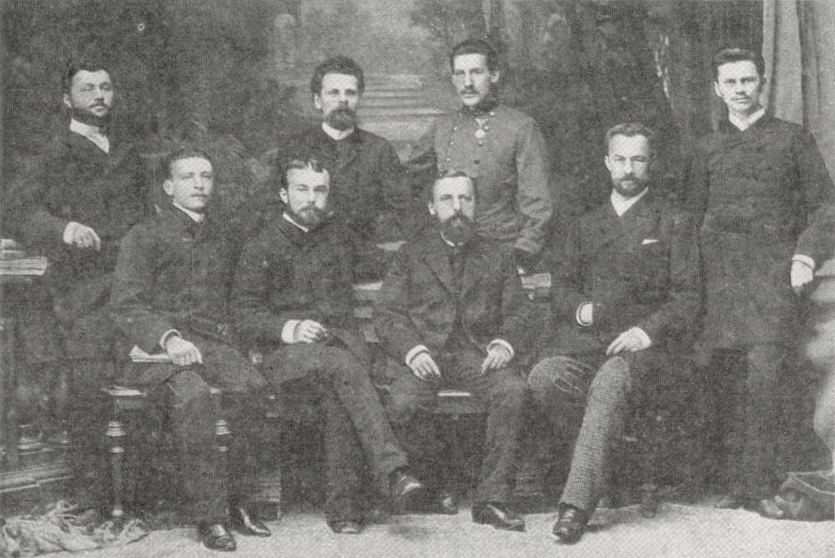 Mikulicz and his assistants in Kraków